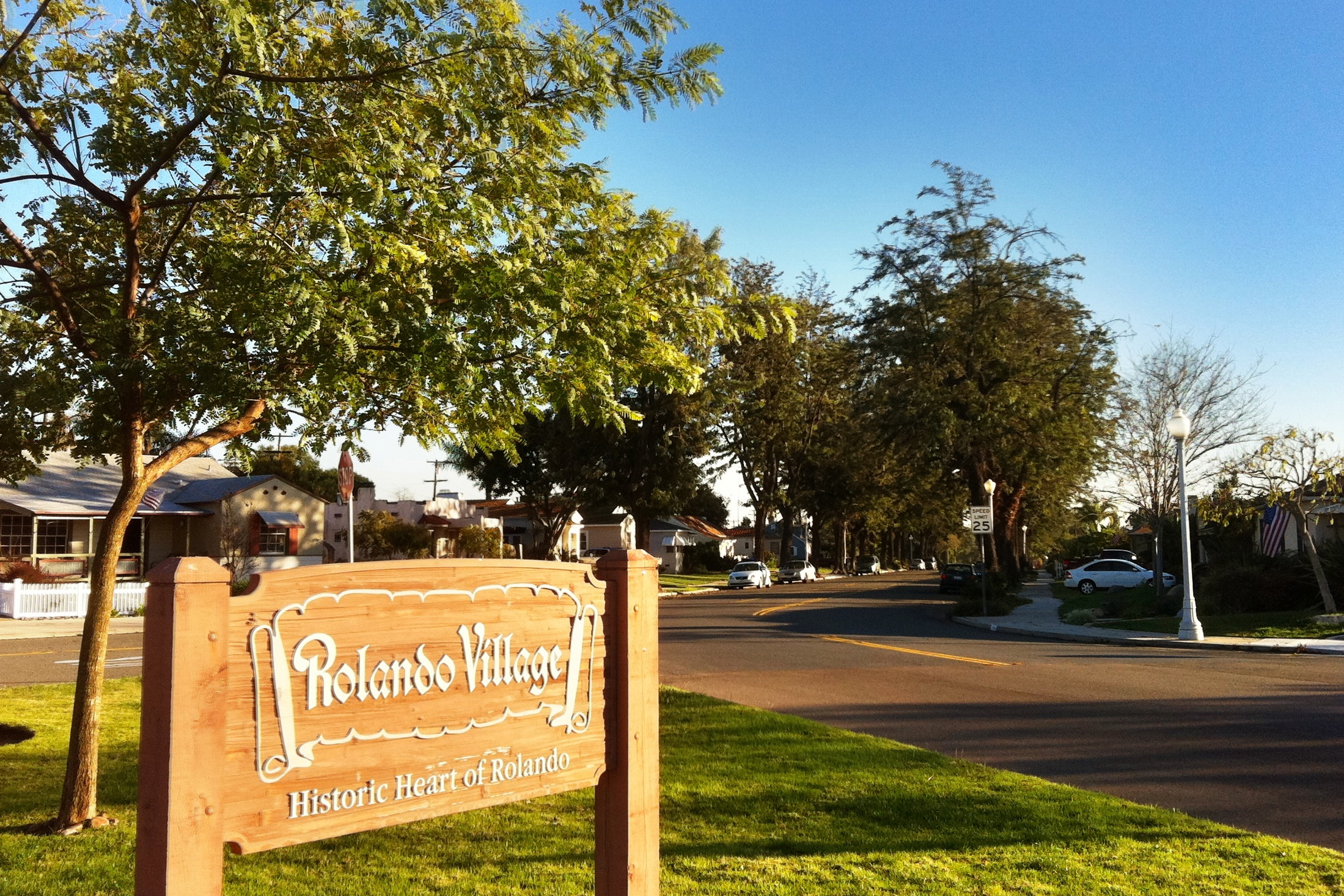 This south-facing view down Rolando Boulevard was taken from the Rolando Village triangle at the intersection of Rolando Boulevard and Shannon Avenue.